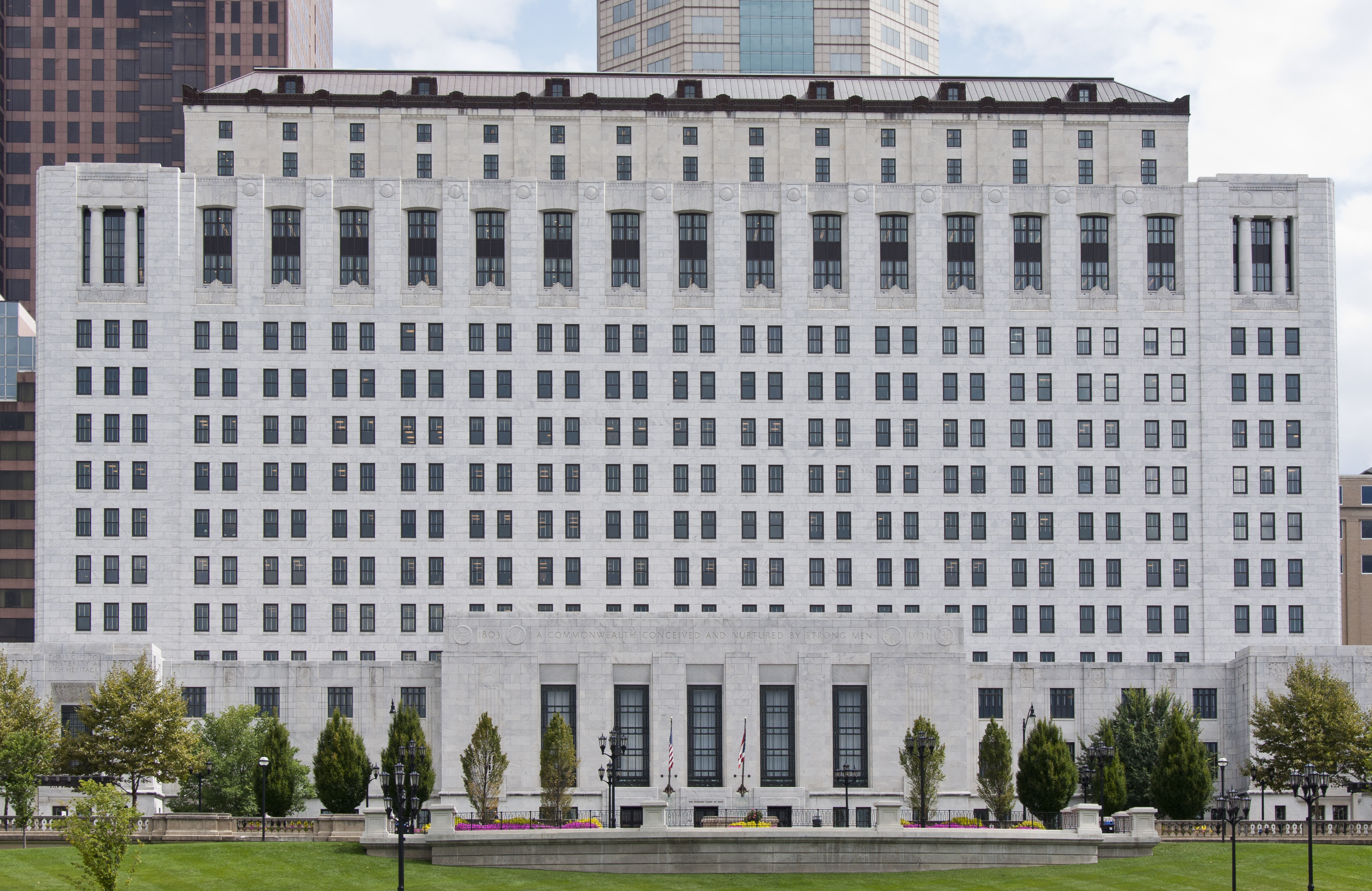 The Thomas J. Moyer Ohio Judicial Center, Ohio State Office Building, is home to the Supreme Court of Ohio. Behind one can see from the left the Huntington Center and the Verne Riffe State Office Building near the center. Located at 65 S. Front St. it is listed on the National Register of Historic Places